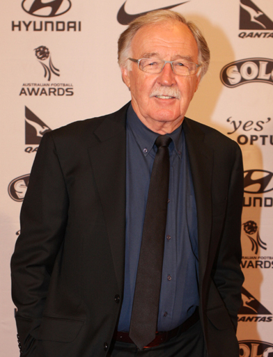 George Negus at the 2011 Australian Football Awards.